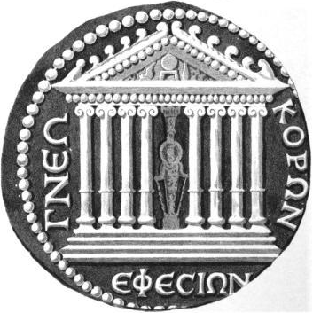 Reverse of coin of Gordianus with the temple of Artemesis at Ephesus and legend ЄΦЄCΙΩΝ·Γ·ΝЄΟΚΟΡΩΝ (of the Ephesians Neokors Three). On the reverse the legend round the head of the emperor reads ΑΥΤ·Μ·ΑΝΤ·ΓΟΡΔΙΑΝΟC (Autokrator Markos Antonios Gordianos = Imperator Marcus Antonius Gordianus).